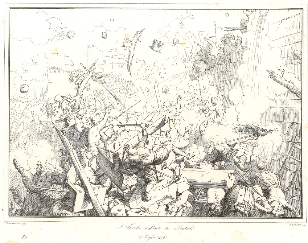 "I Turchi respinti da Scutari 27 Luglio 1478" by Giuseppe Lorenzo Gatteri, 1860, etching. Scene depicts the fifth and greatest assault upon the Shkodra Castle by Ottoman forces in the siege of Shkodra of 1478–9.